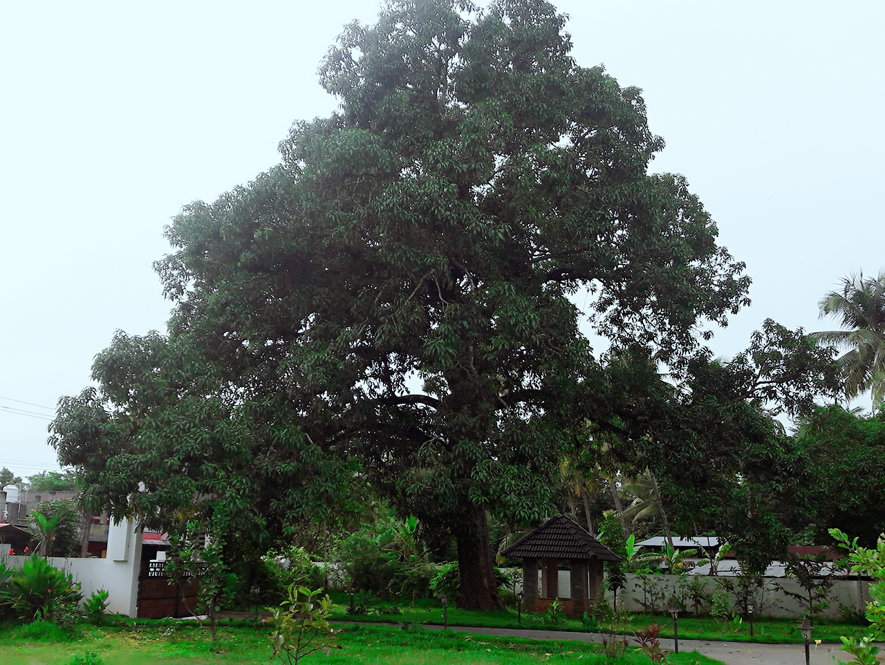 Mango tree Scientific name: Mangifera indica ; Family - Anacardiaceae.